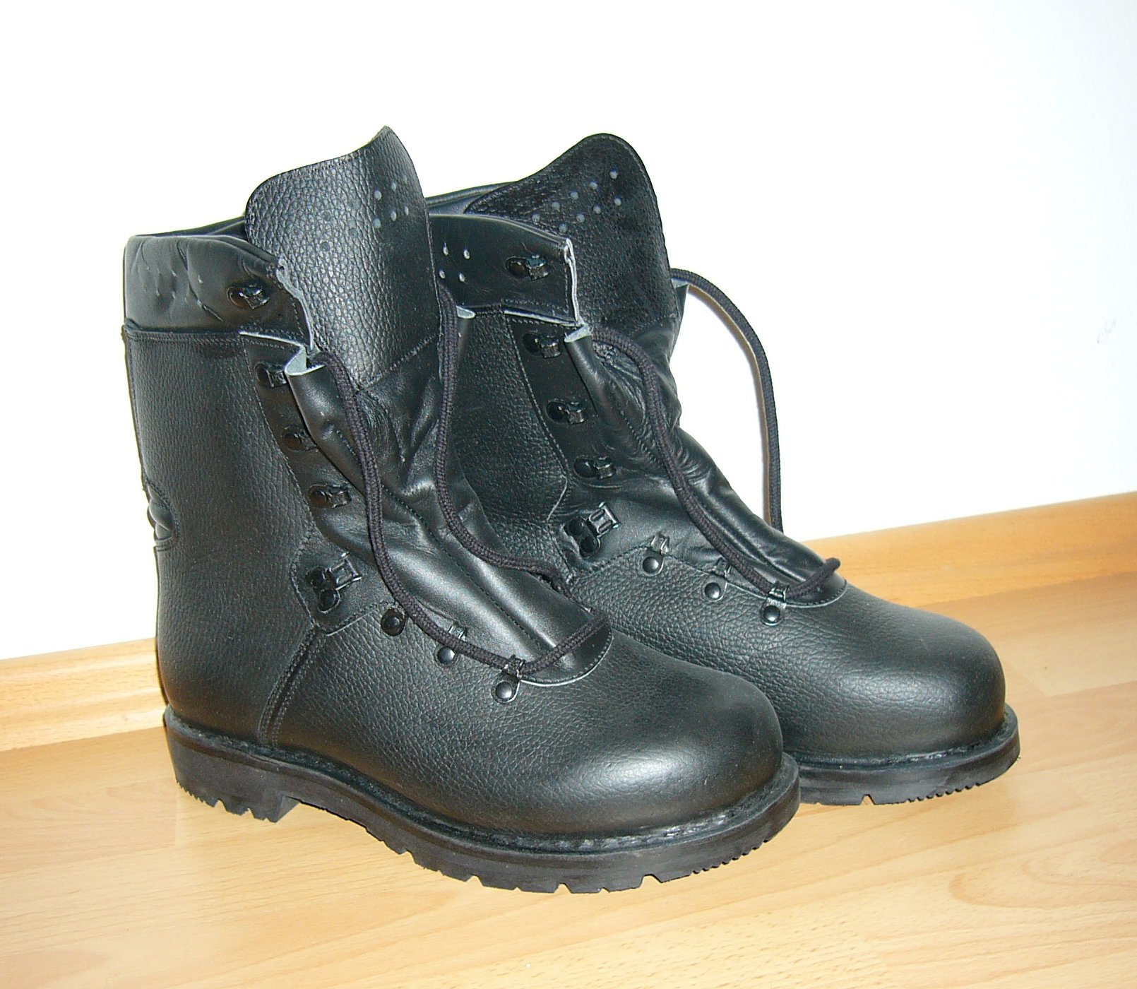 Military Boots of the German Bundeswehr.